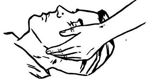 gentle pressure behind the jaw lifts the mandible and maintains airway patency. Some clients dentition allows the operator to place the lower teeth over the upper and maintain this position with one hand.